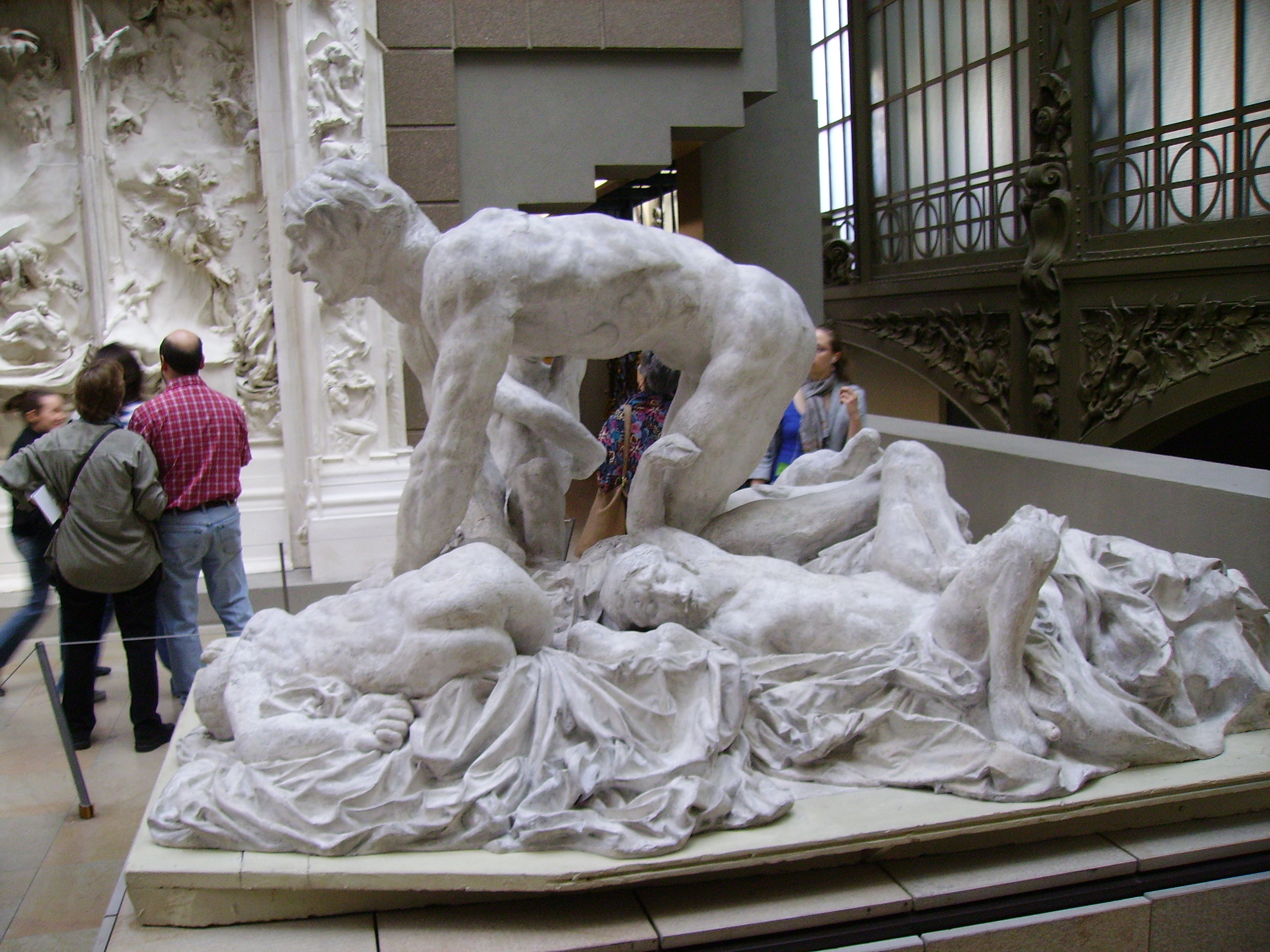 Ugolino by Auguste Rodin at Orsay Museum.